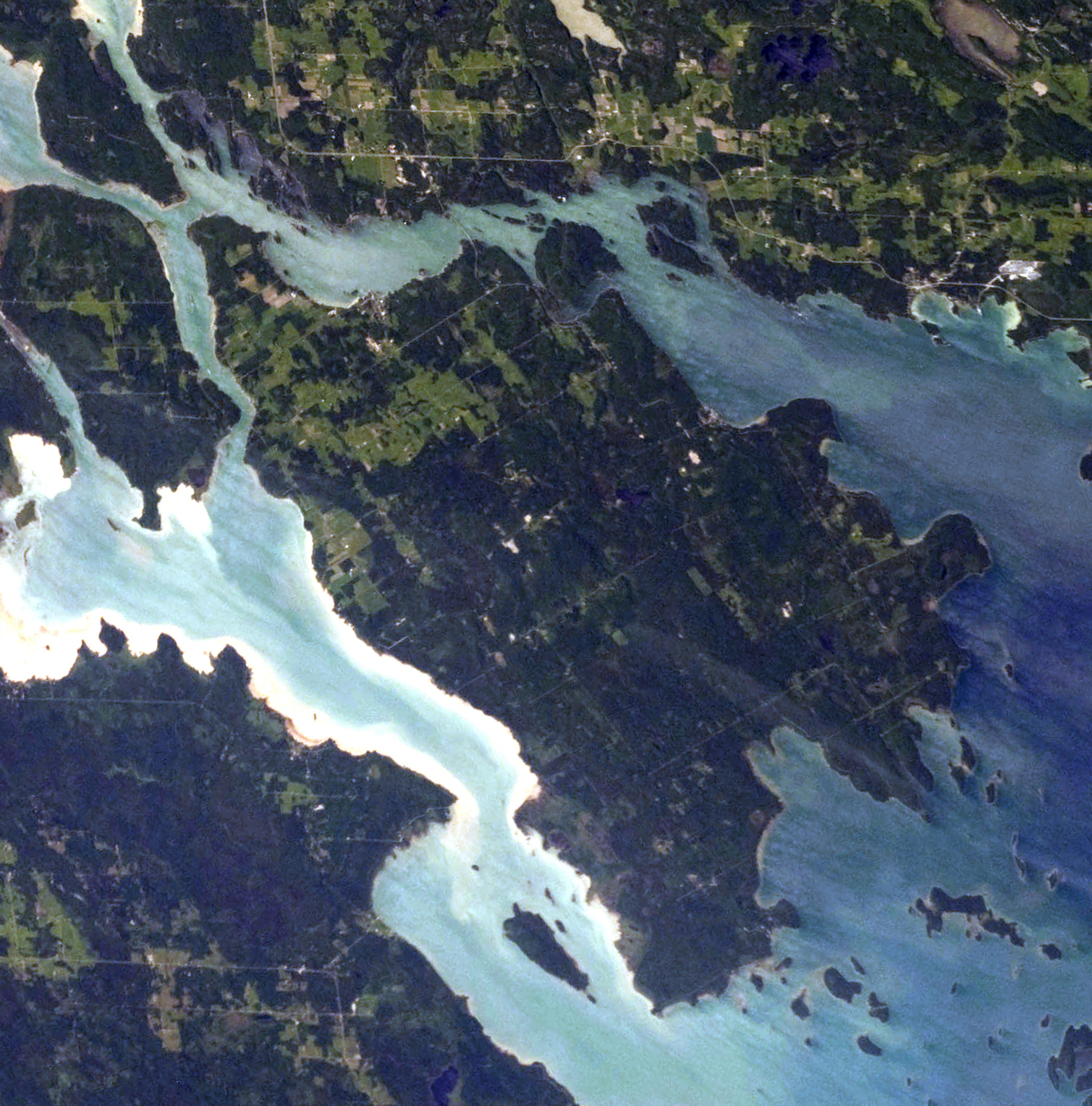 This photo taken from the International Space Station shows St. Joseph Island, Ontario with north-south orientation